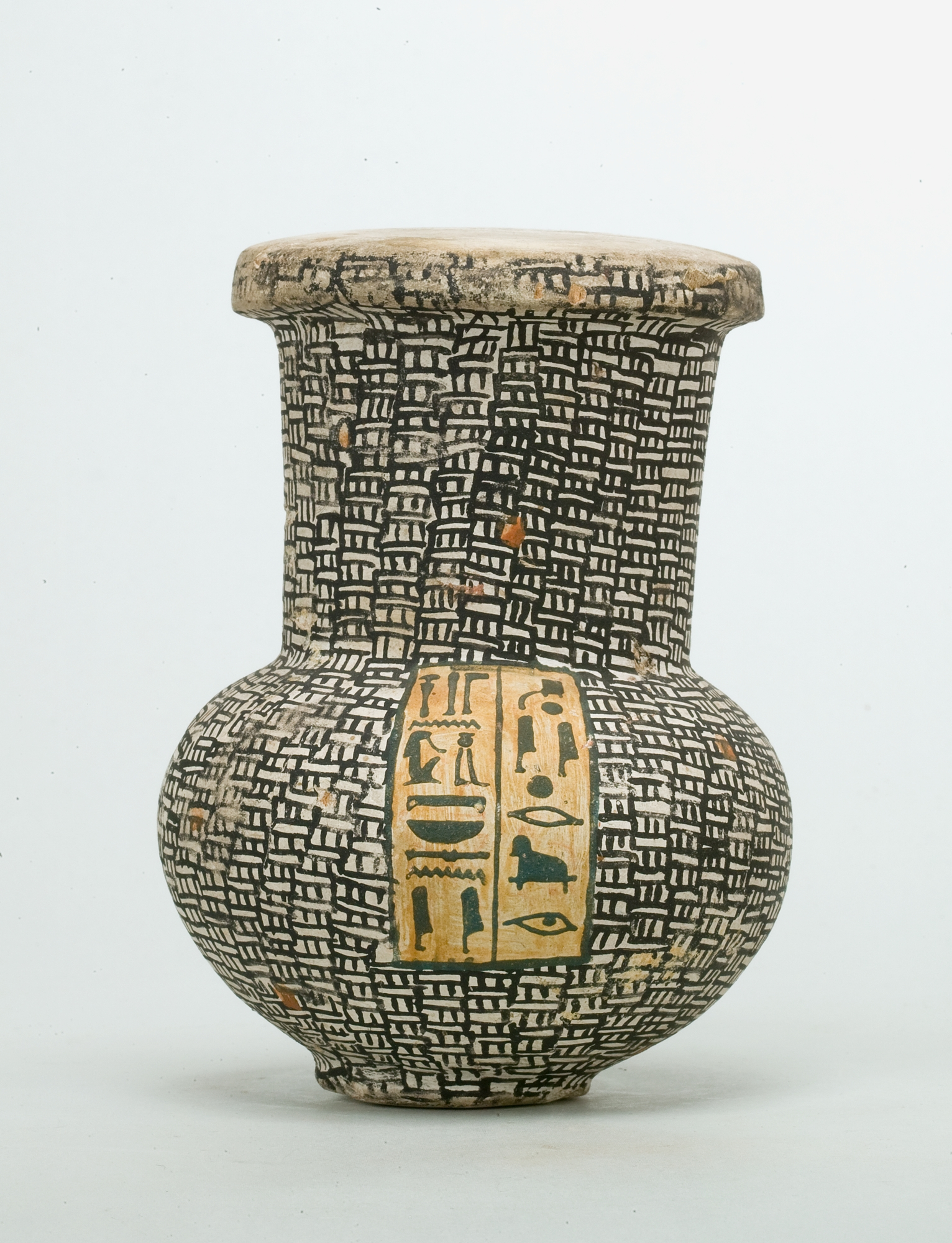 Model vase, Nebseny